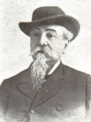 A picture of Alfredo Augusto das Neves Holtreman, Viscount of Alvalade (1837-1920).